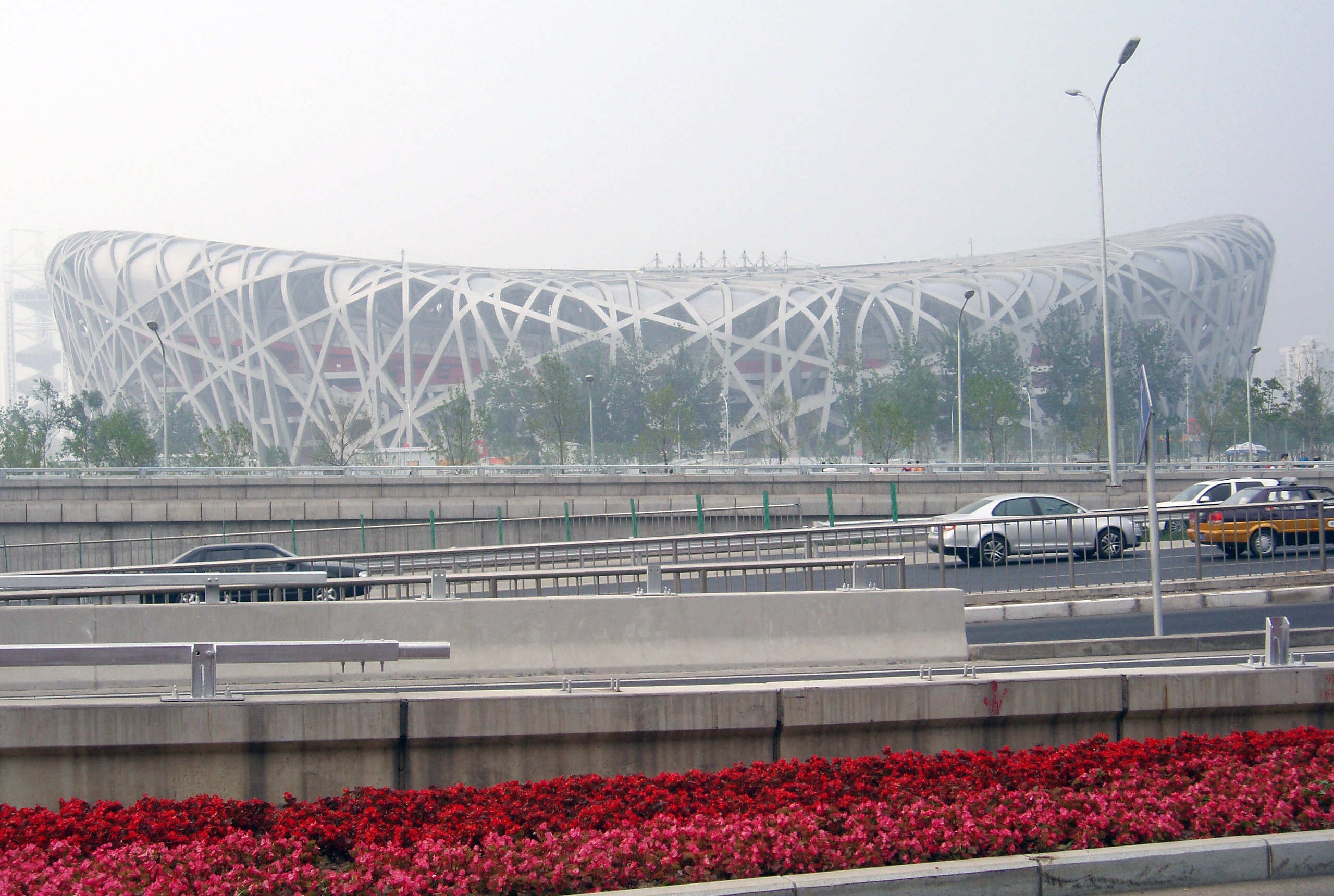 Beijing 2008 Summer Olympics Stadium, Bird's Nest